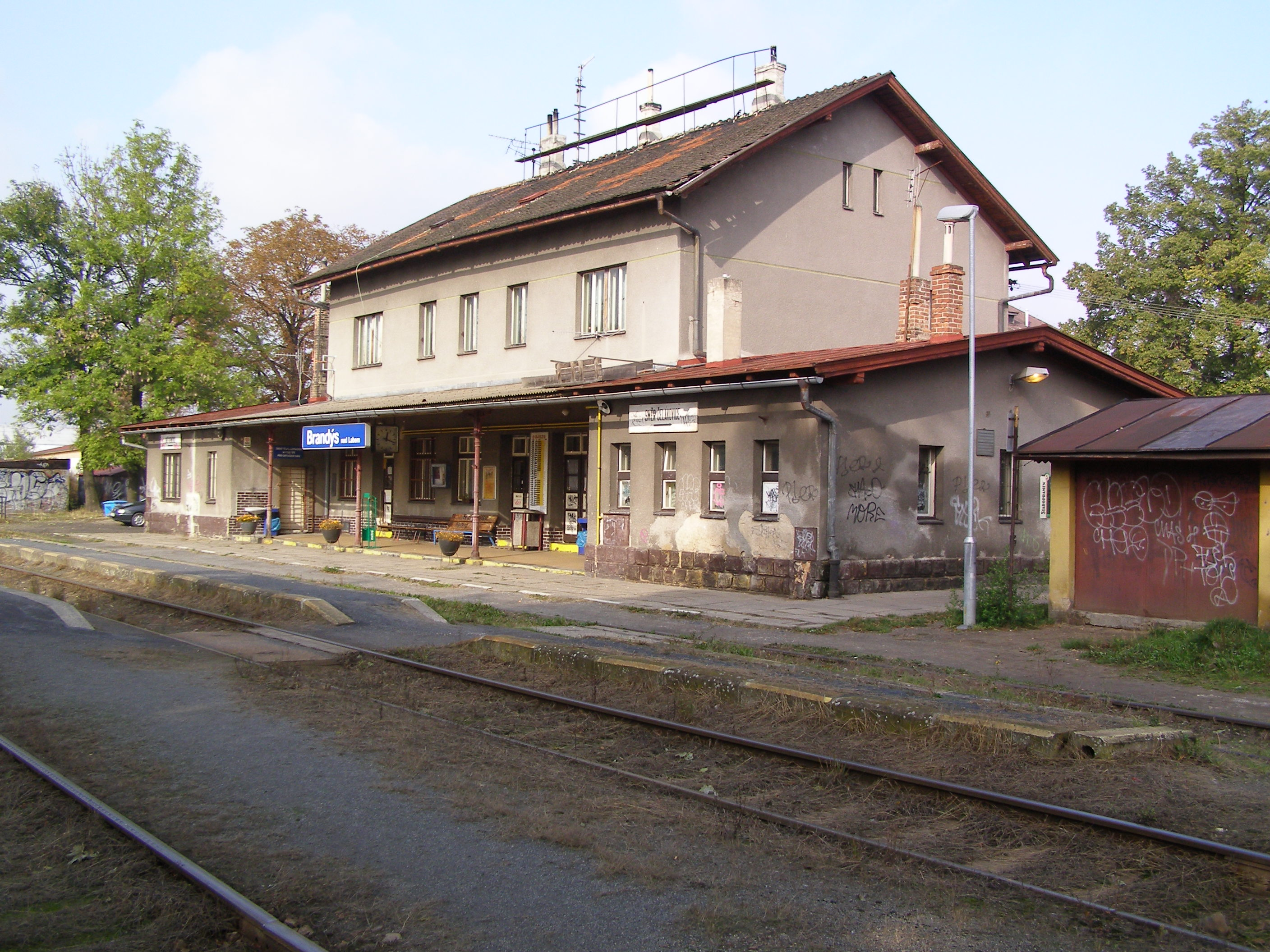 Brandýs nad Labem - rail station